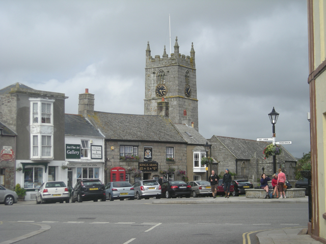 Market Square, St Just